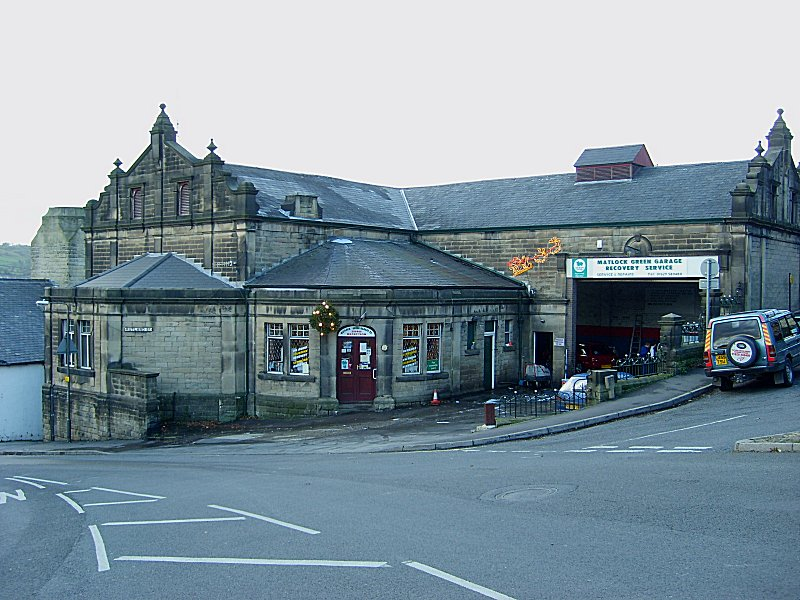 Matlock Cable Tramway's depot, now Matlock Green Garage, Matlock.